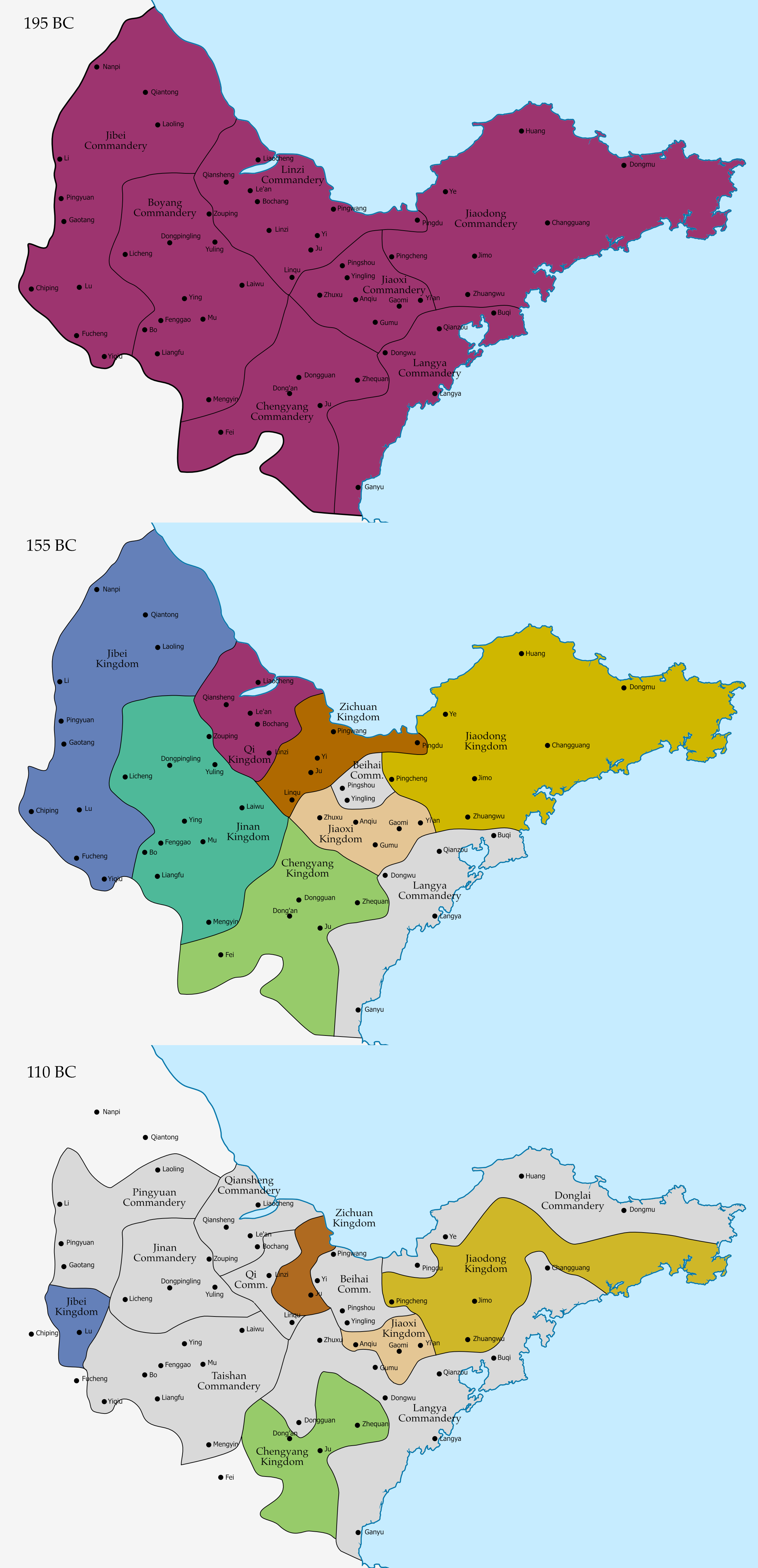 Above: Qi Kingdom in 195 BC. Center: The seven kingdoms of Qi, Beihai and Langya commanderies in 155 BC. Below: Kingdoms and commanderies in the Qi region, 110 BC. Place names, locations and borders in this file are based on The Historical Atlas of China (中国历史地图集) by Tan Qixiang, and Administrative Geography during Western Han Dynasty (西汉政区地理) by Zhou Zhenhe.